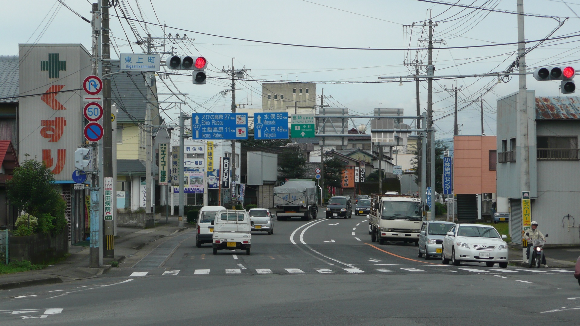 Route 221 (Kobayashi City, Miyazaki, Japan)